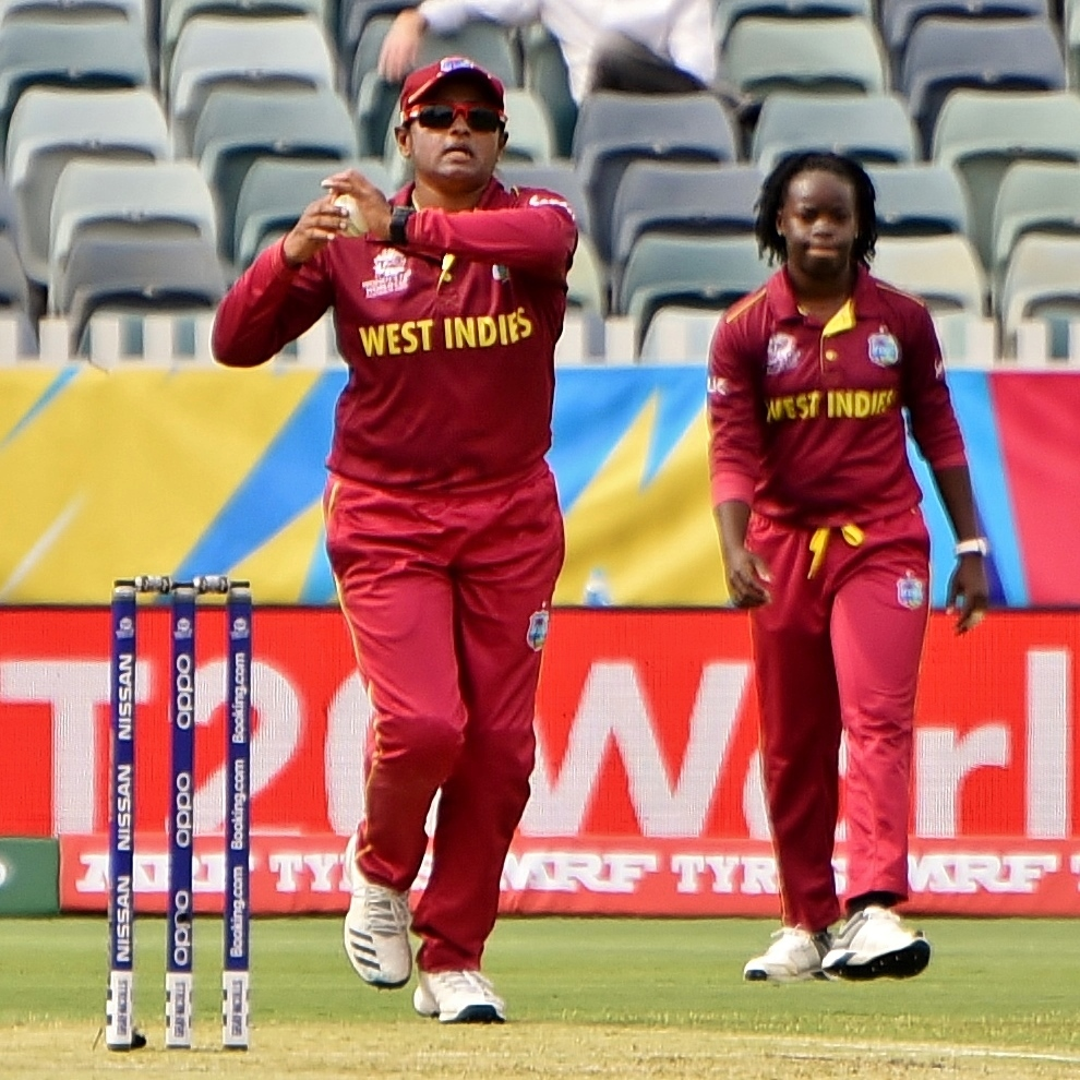 Anisa Mohammed bowling for the West Indies against Thailand during their 2020 ICC Women's T20 World Cup match at the WACA Ground in Perth, Australia